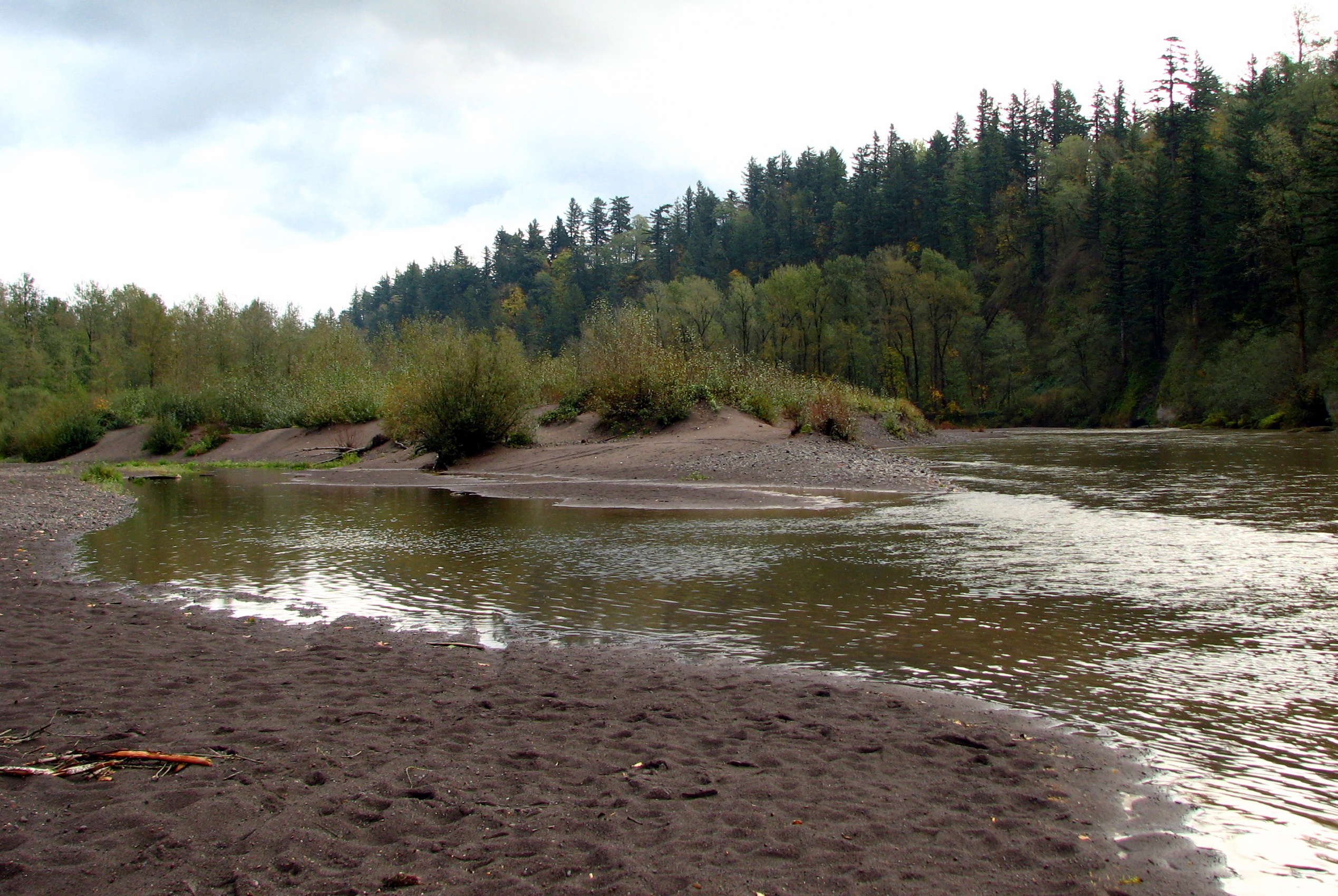 The Sandy River at Dabney State Recreation Area, Oregon, United States, looking upriver. The main body of Dabney SRA is toward the left side of the photo.